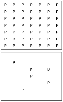 Where is "B"?